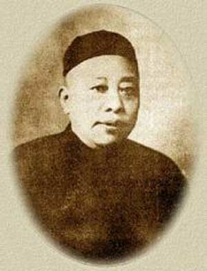 Huang Jinyong 黄金荣脚踏黑白两道，左右逢源，是上海滩的世富和流氓大亨。